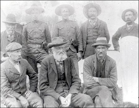 Treaty Eight - Treaty commission: Treaty commission. 1899. Glenbow Archives. NA-949-87. Treaty No. 8 commission at Pelican Portage. Left to right, seated: H.B. Round, transportation manager; David Laird, commissioner; Harrison Young, secretary. Left to right, standing: Pierre d'Eschambault, interpreter; two NWMP constables; Henry McKay, camp manager; and Lafrance, cook.